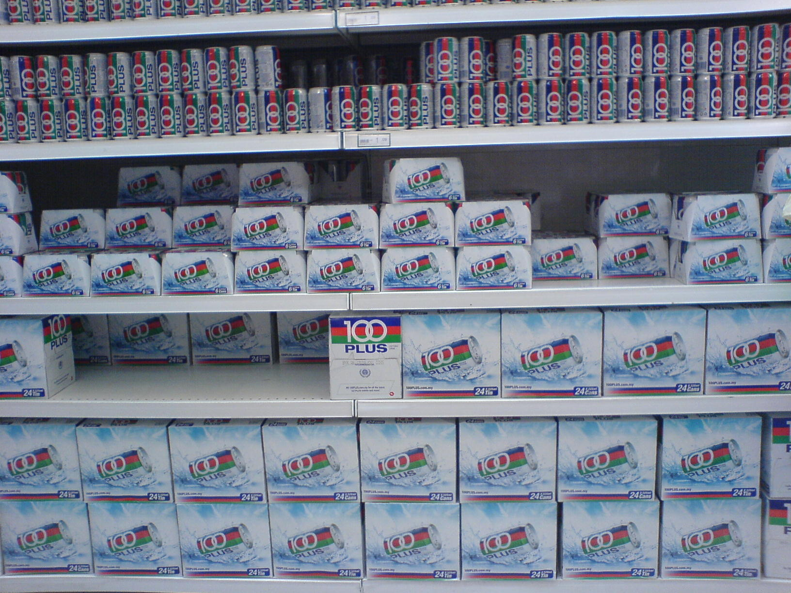 Boxes of 100Plus in a branch of Giant Hypermarket, Kuala Lumpur